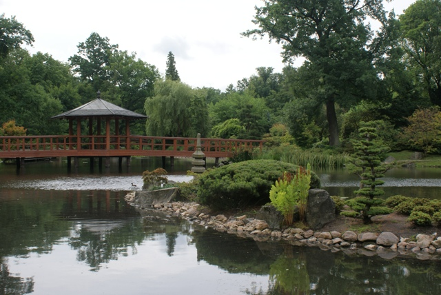 Japanese Garden in Wroclaw